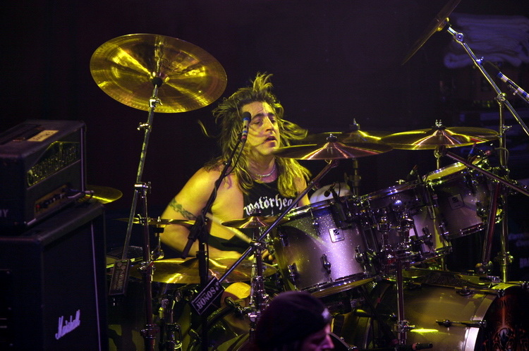 Mikkey Dee Live at Reds, Edmonton, May, 2005